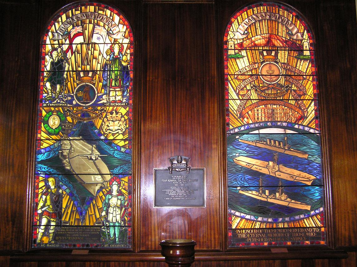 Garden Island Naval Chapel, Sydney Australia. Memorial windows for HMAS Melbourne (aircraft carrier) and HMAS Sydney (Aircraft and troop carrier). Between them is the commemorative plaque for Rear Admiral Sir David Martin KCMG AO RAN, Governor of New South Wales.